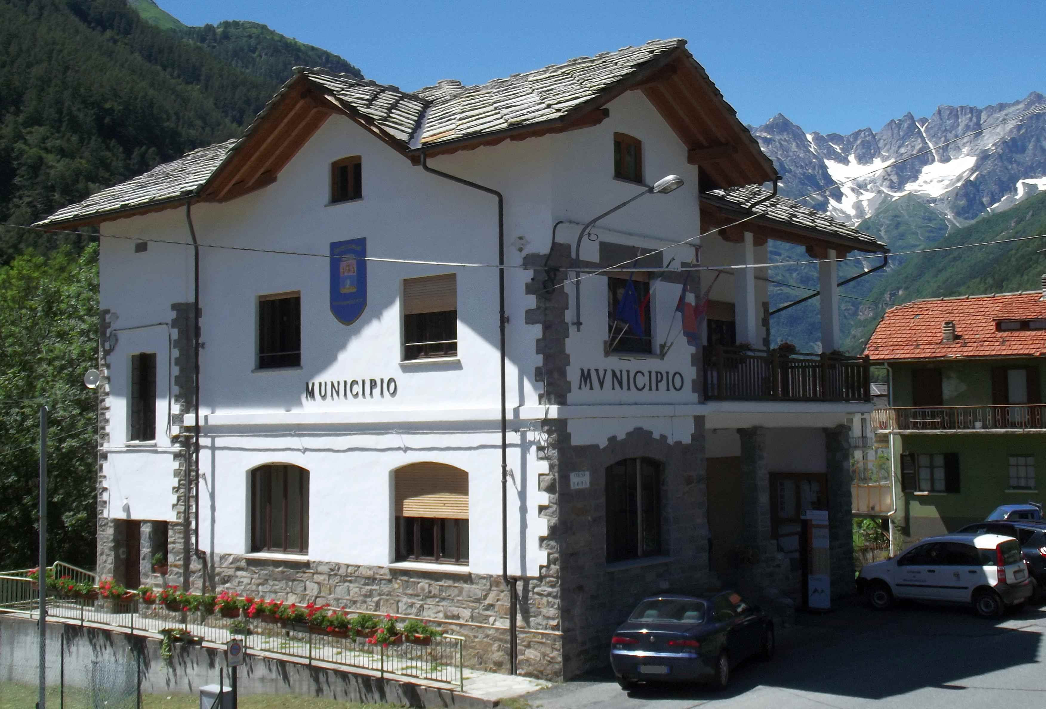 Groscavallo (TO, Italy): town hall